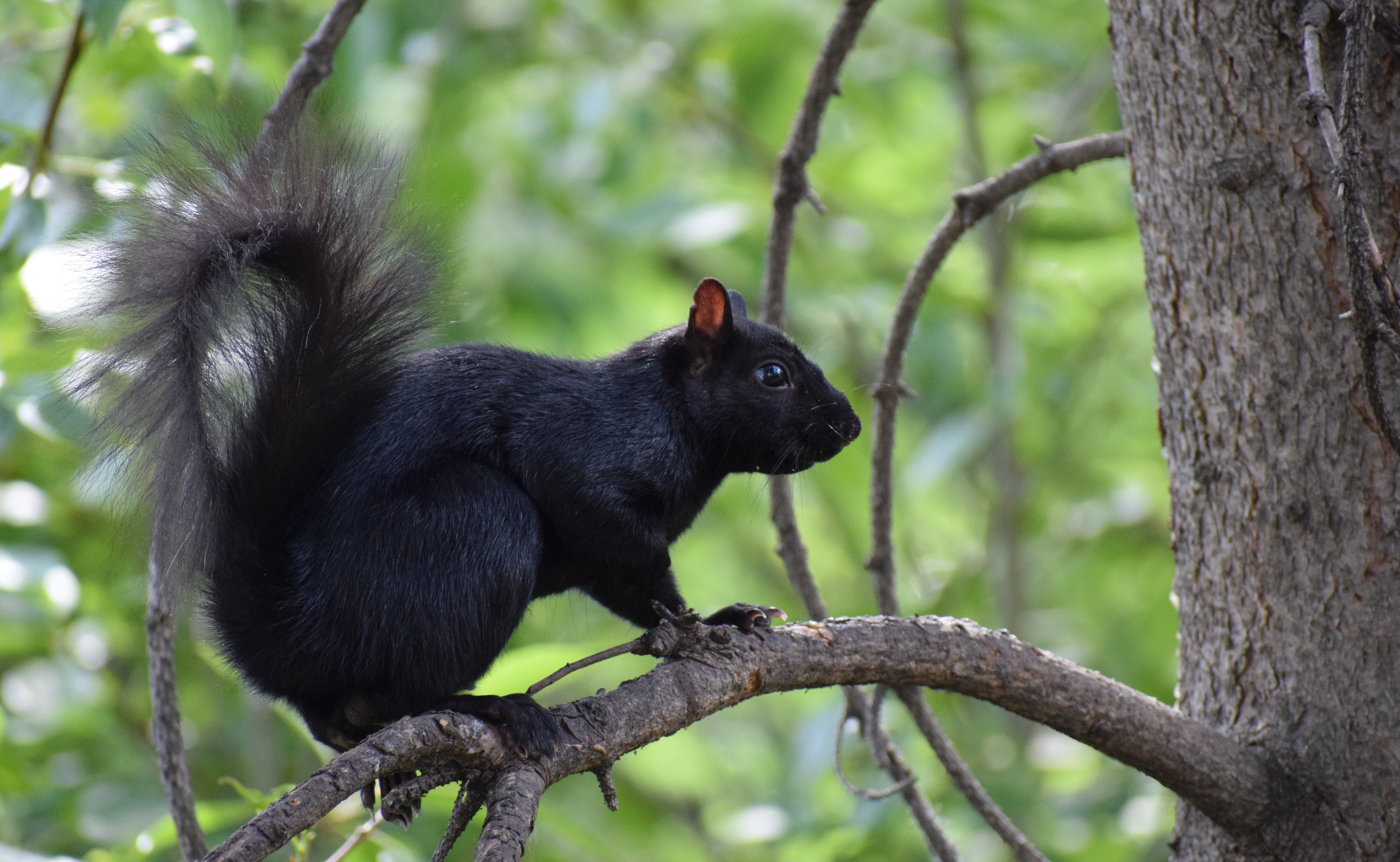 Calgary black squirrel on tree